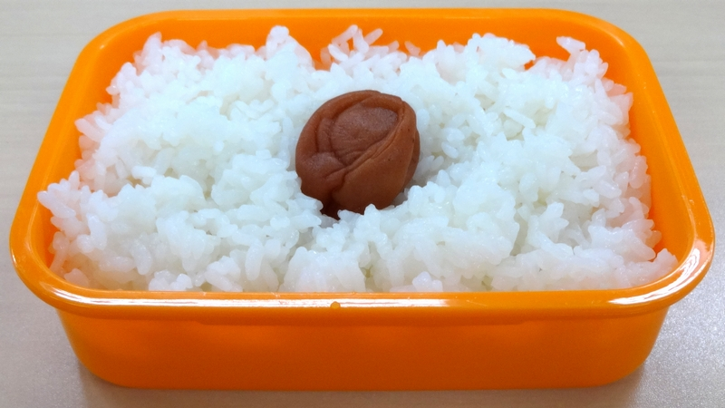 Hinomaru bento (“circle of the sun” lunch box). It symbolizes the sun and the flag of Japan. (日の丸弁当)